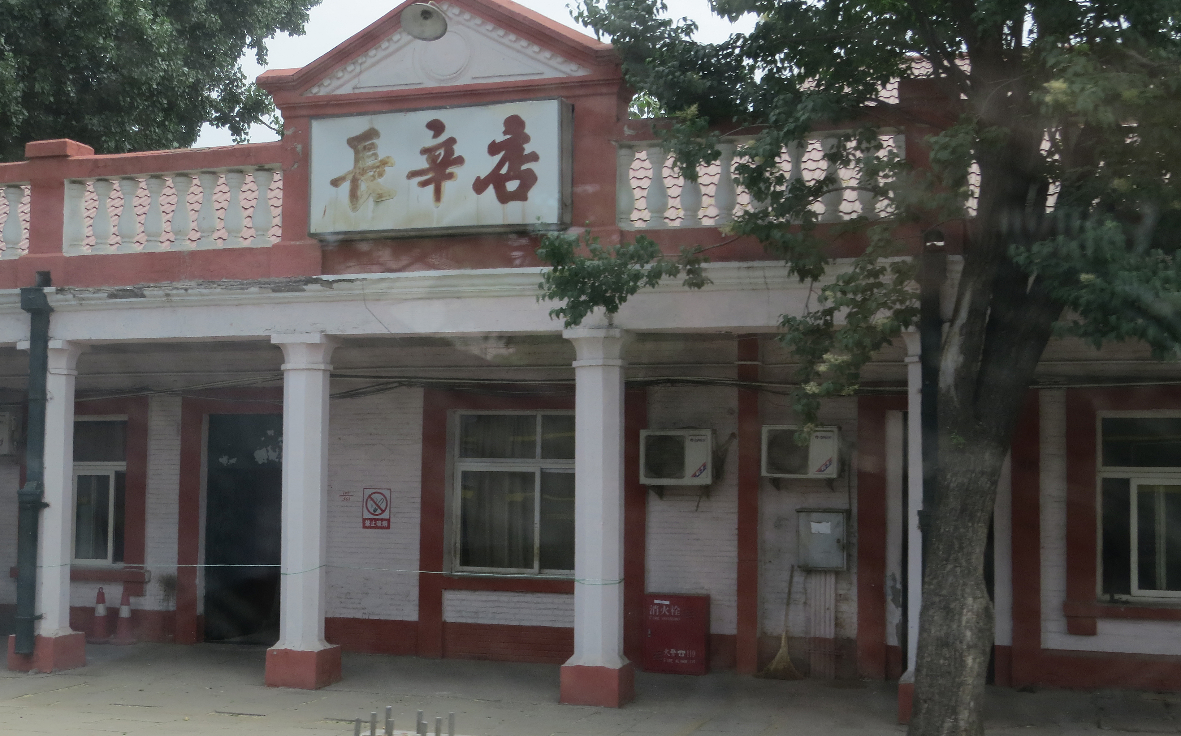 Taken from K977.